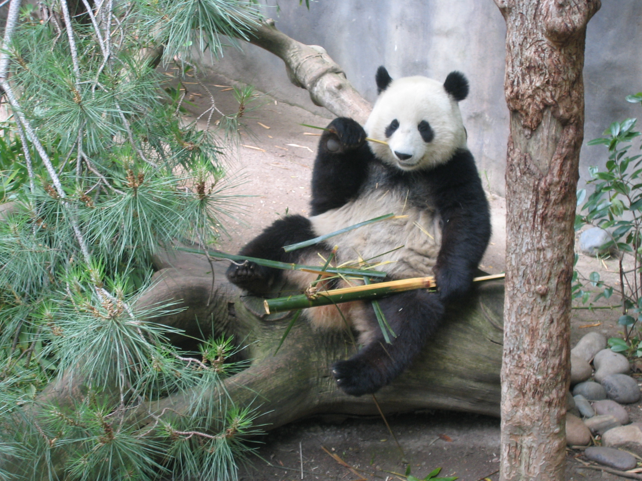 Giant panda at the San Diego Zoo